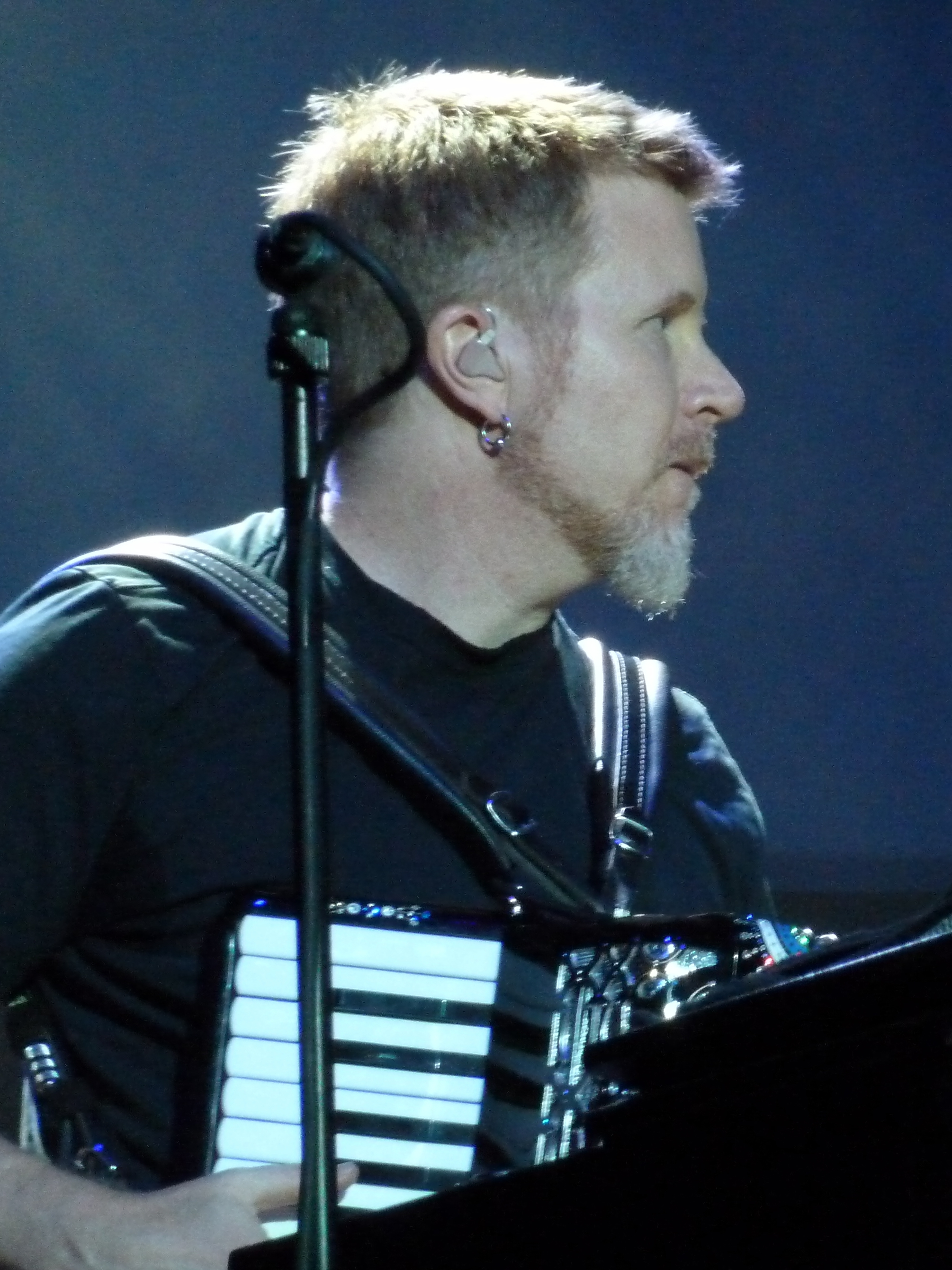 Matt Rollings performing with Mark Knopfler at O2 World, Berlin, on June 18, 2010